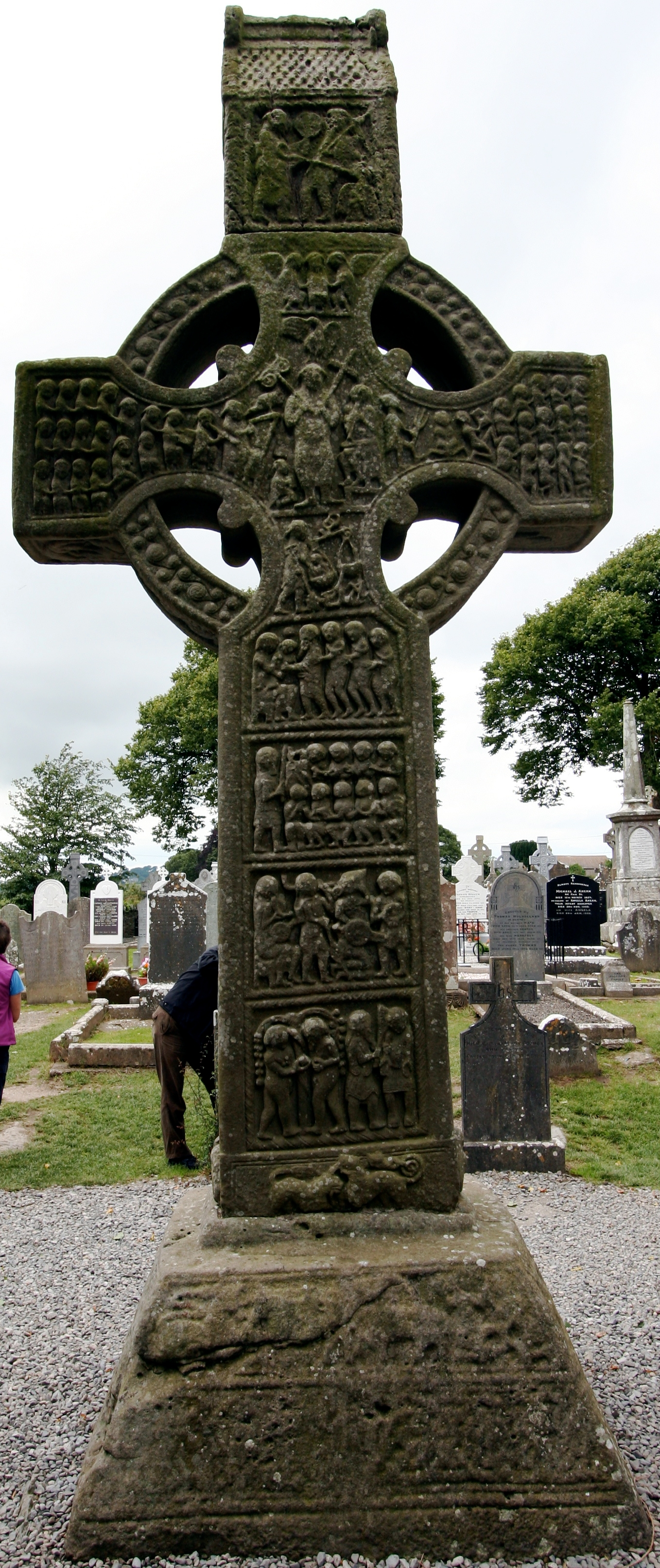 Photograph of the east face of Muiredach's High Cross.